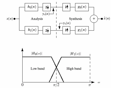 subband1